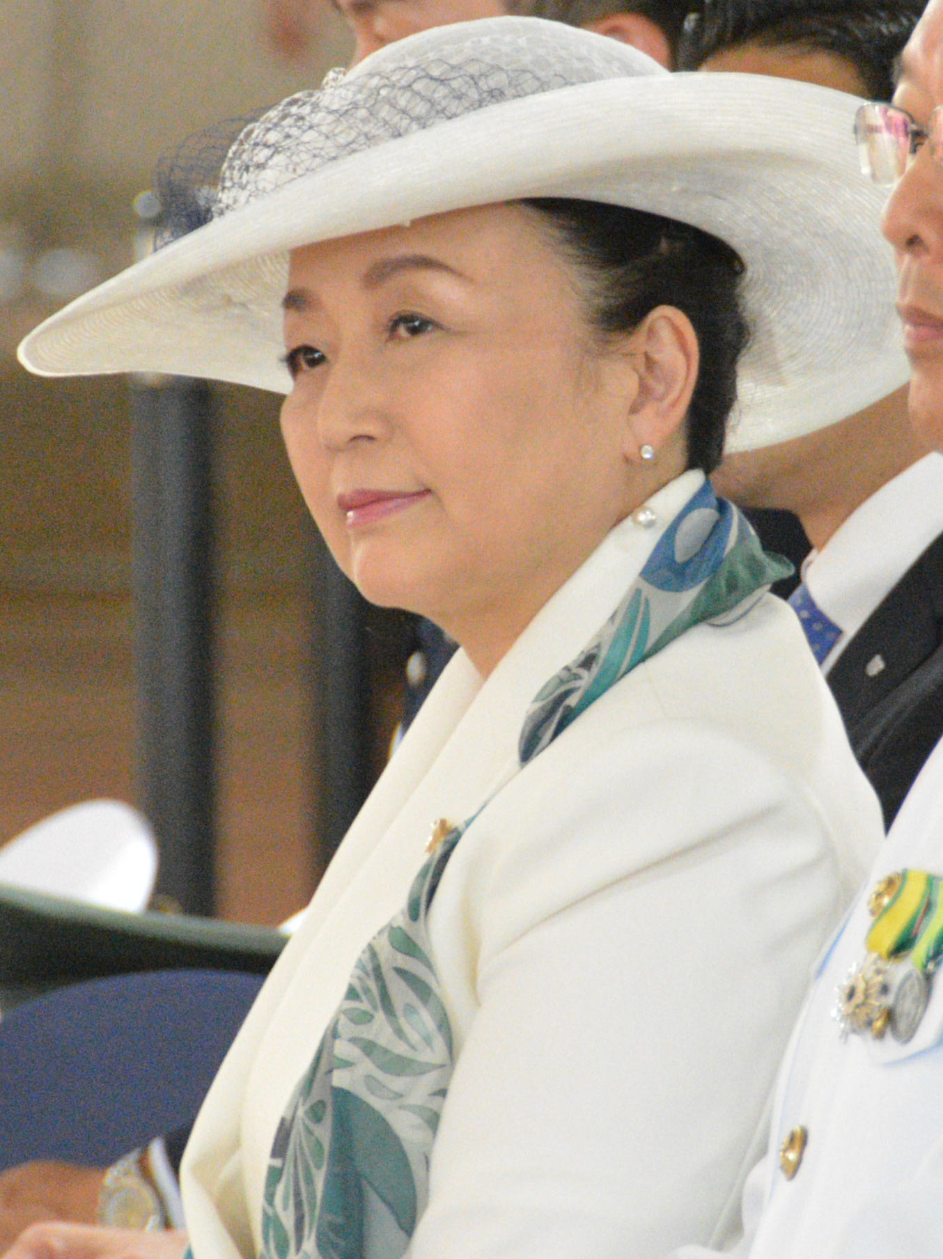 Princess Nobuko attending a concert of the "Tokyo Band".